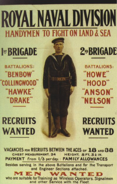 Recruiting poster for the British Royal Naval Division, probably 1914 or 1915. Source: The First World War: An Illustrated History, John Keegan, 2001.